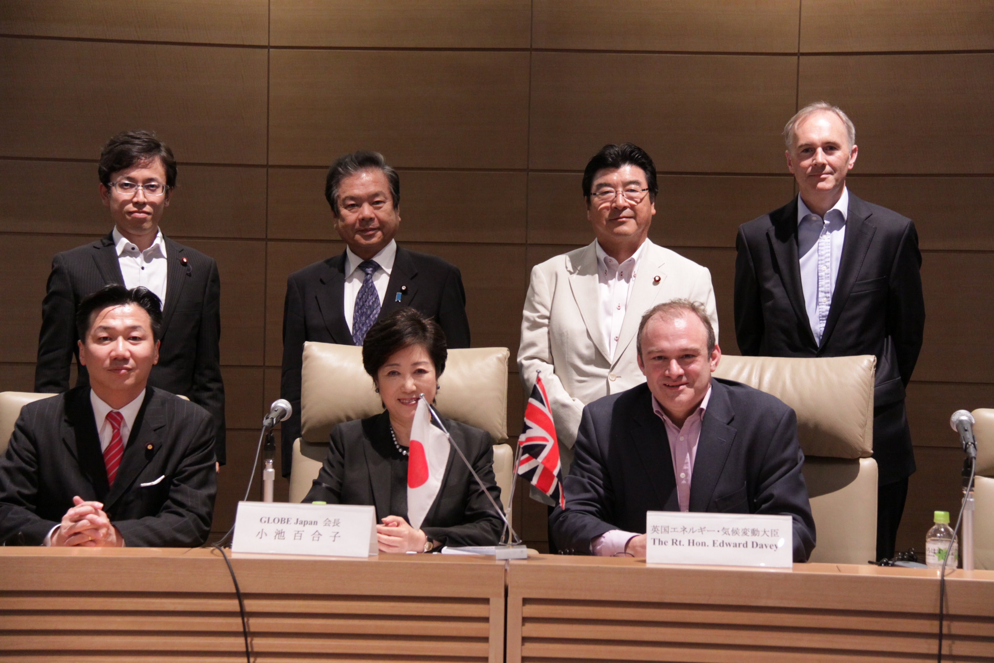 Edward Davey, Secretary of State for Energy and Climate Change, and Tim Hitchens, Ambassador to Japan, met members of the Global Legislators Organization for a Balanced Environment on May 30, 2013.